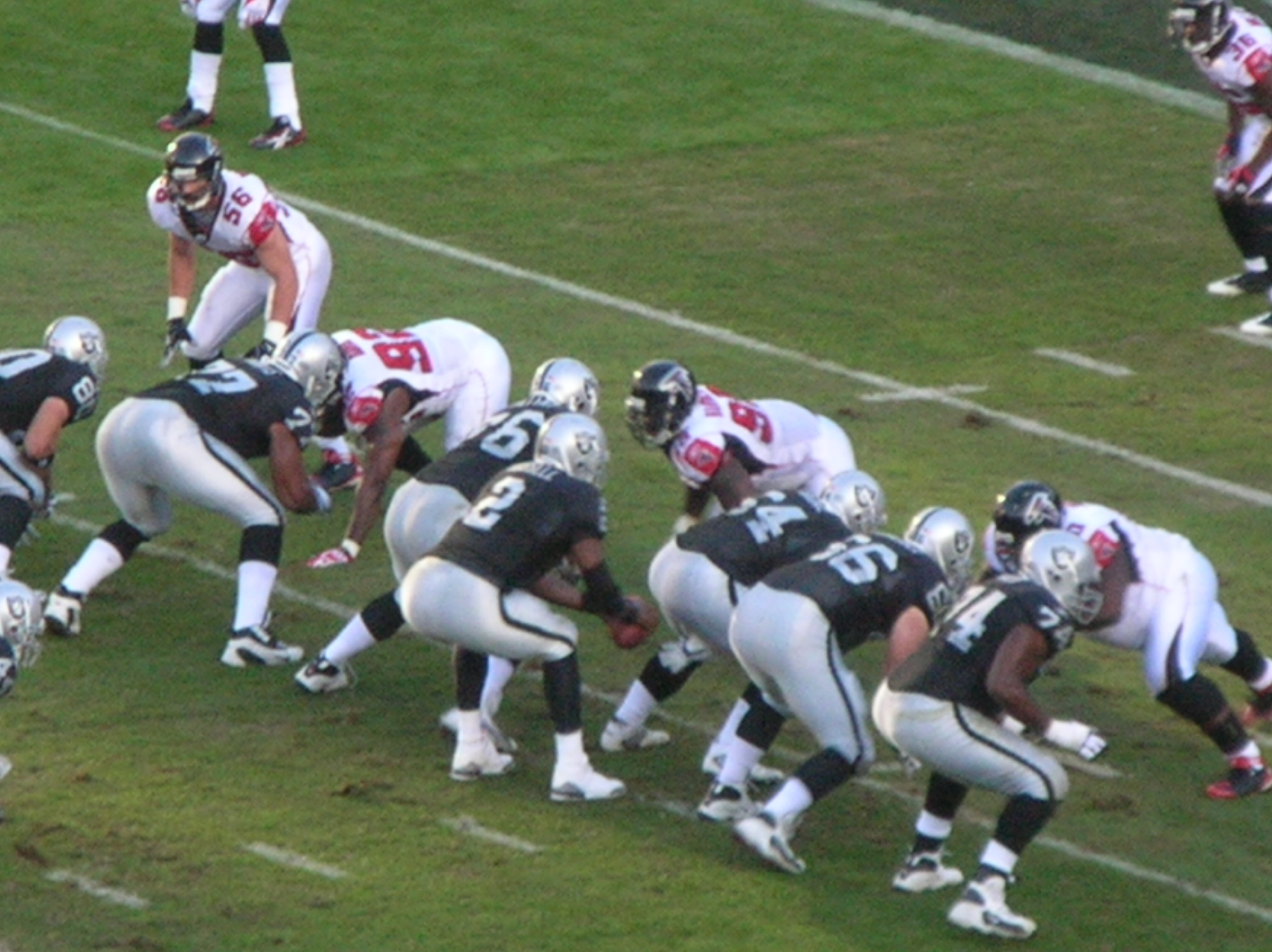 The Oakland Raiders on offense during a home game against the Atlanta Falcons. Raiders quarterback JaMarcus Russell threw an interception in the end zone on this very play. The Falcons won 24-0.